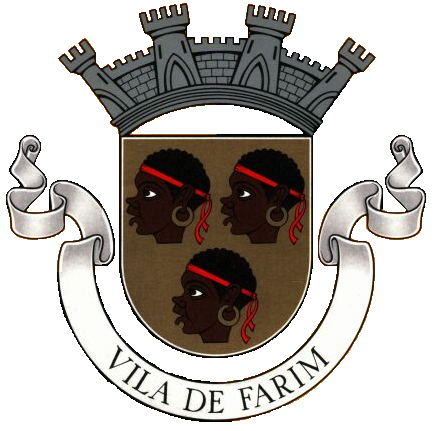 Coat of arms of the city of Farim, Guinea-Bissau, during Portuguese rule (may be still in use). Emerson